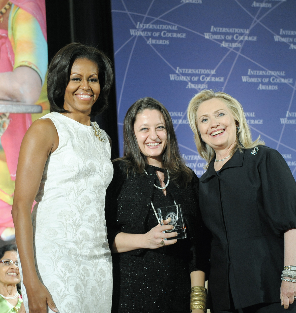 2012 International Women of Courage Awards Ceremony Remarks Hillary Rodham Clinton Secretary of State Melanne Verveer Ambassador-at-Large for Global Women's Issues First Lady Michelle Obama Dean Acheson Auditorium Washington, DC March 8, 2012